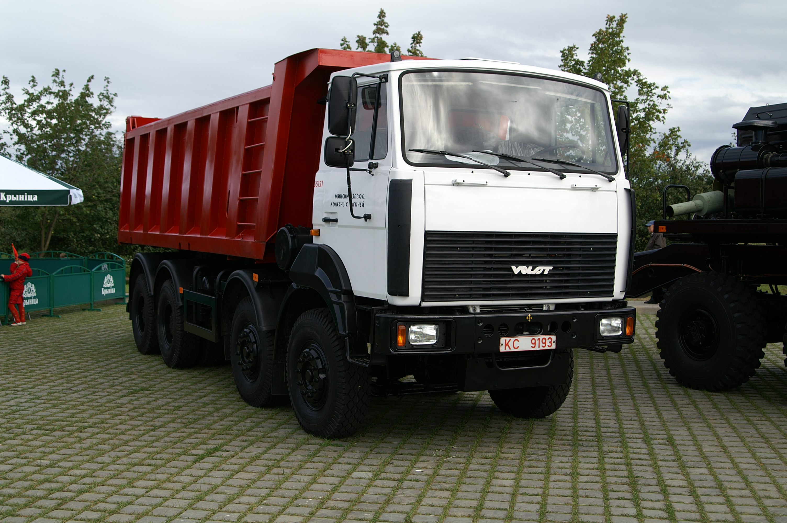 MZKT vehicle in Minsk